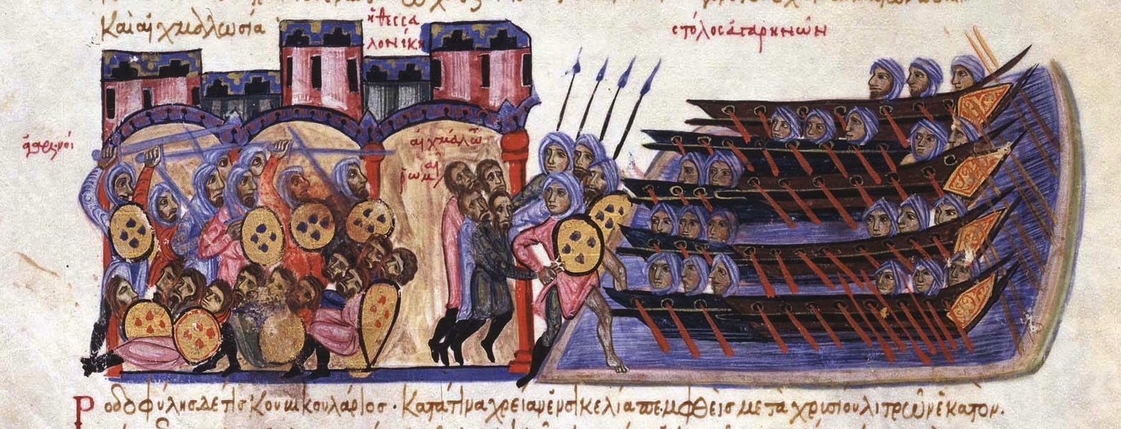 Illustration of the sack of Thessalonica by the Arab fleet in 904, from the Madrid Skylitzes, fol. 111v, detail.